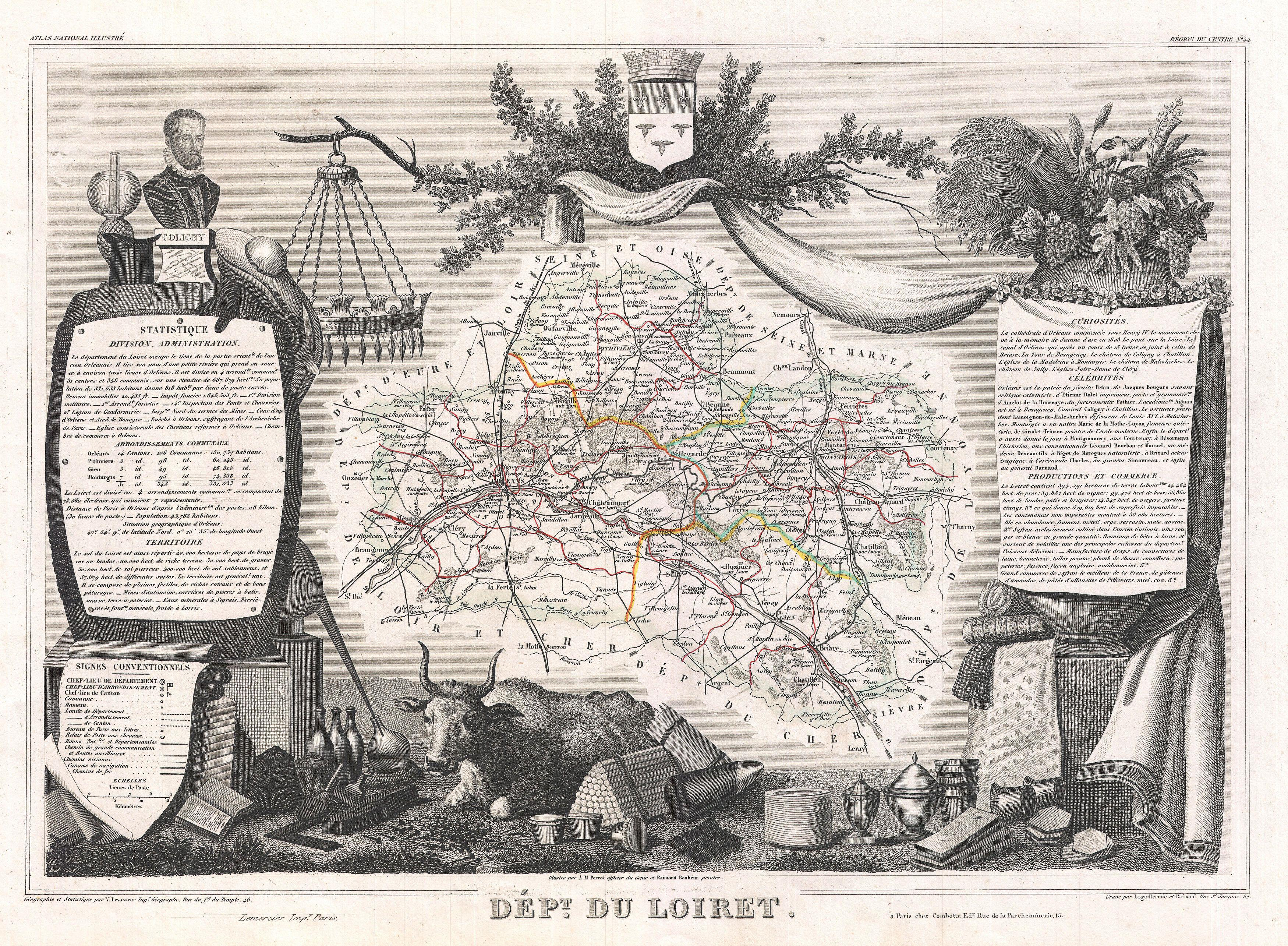 This is a fascinating 1852 map of the French department of Loiret, France. Surrounding the city of Orleans, Loiret is considered the heart of France and is a registered Unesco World Heritage Site. This area of France is also part of the Loire Valley wine region, and is especially known for its production of Pinot Noirs and Gris Meuniers in the Orleans area. The map proper is surrounded by elaborate decorative engravings designed to illustrate both the natural beauty and trade richness of the land. There is a short textual history of the regions depicted on both the left and right sides of the map. Published by V. Levasseur in the 1852 edition of his Atlas National de la France Illustree.